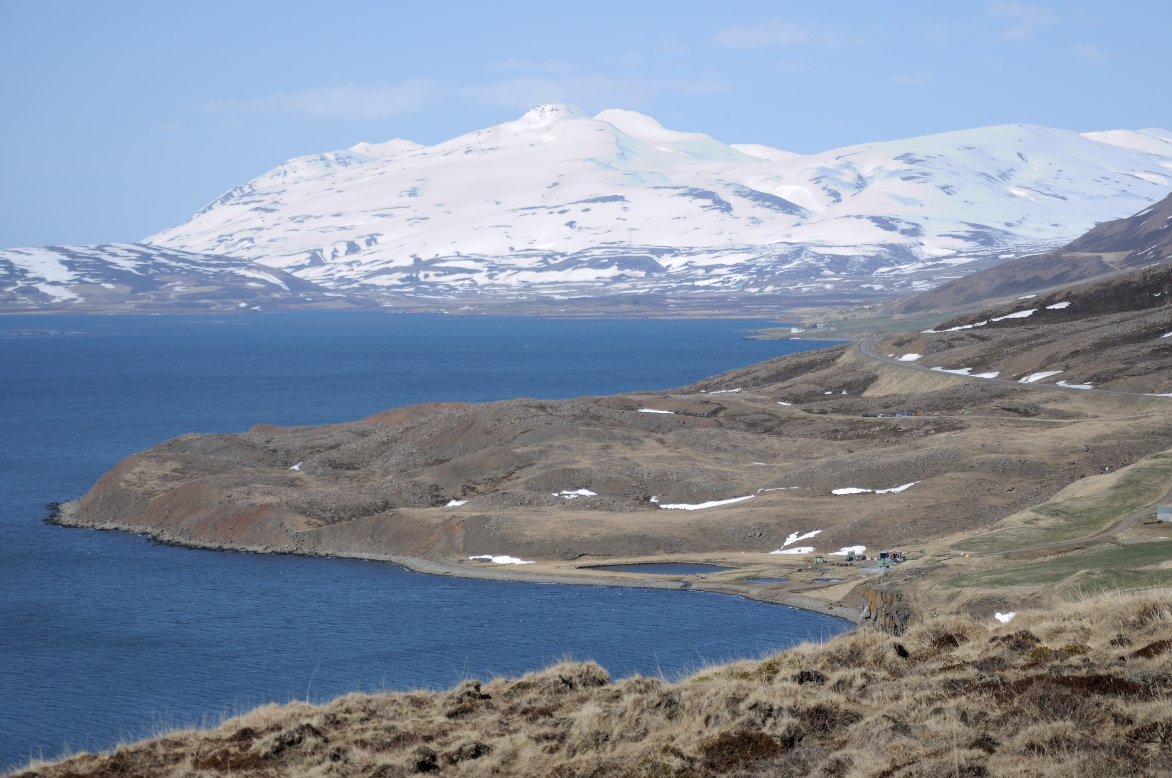 Iceland, view onto Eyjafjörður from ring road